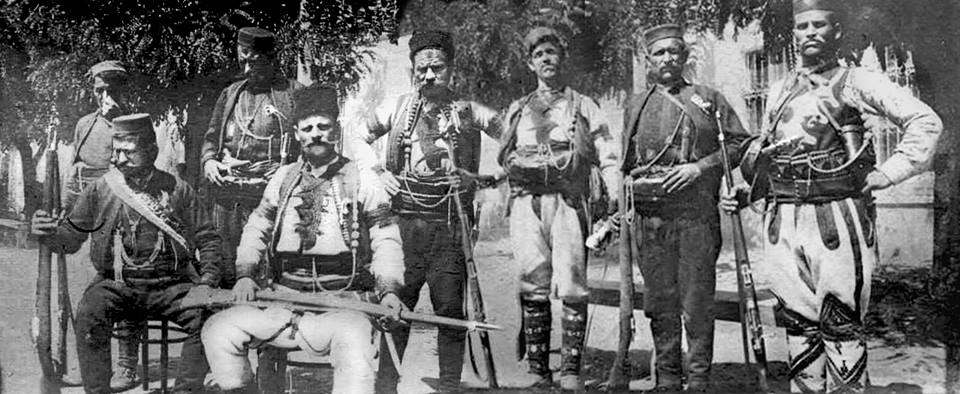 A group photo of Macedonian Serb Chetniks during the Hurriyet (1908). Standing: Dane Stojanović, Jovan Dolgač, Trenko Rujanović, Čuma, Boško Virjanac, Petko Ilić. Sitting: Gligor Sokolović and Jovan Babunski.